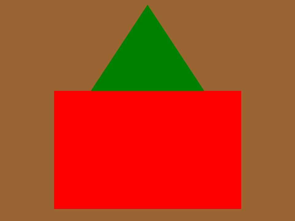 The distinguishing patch of the 3rd Battalion, CEF. Summary The distinguishing patch of the 3rd Battalion, CEF.